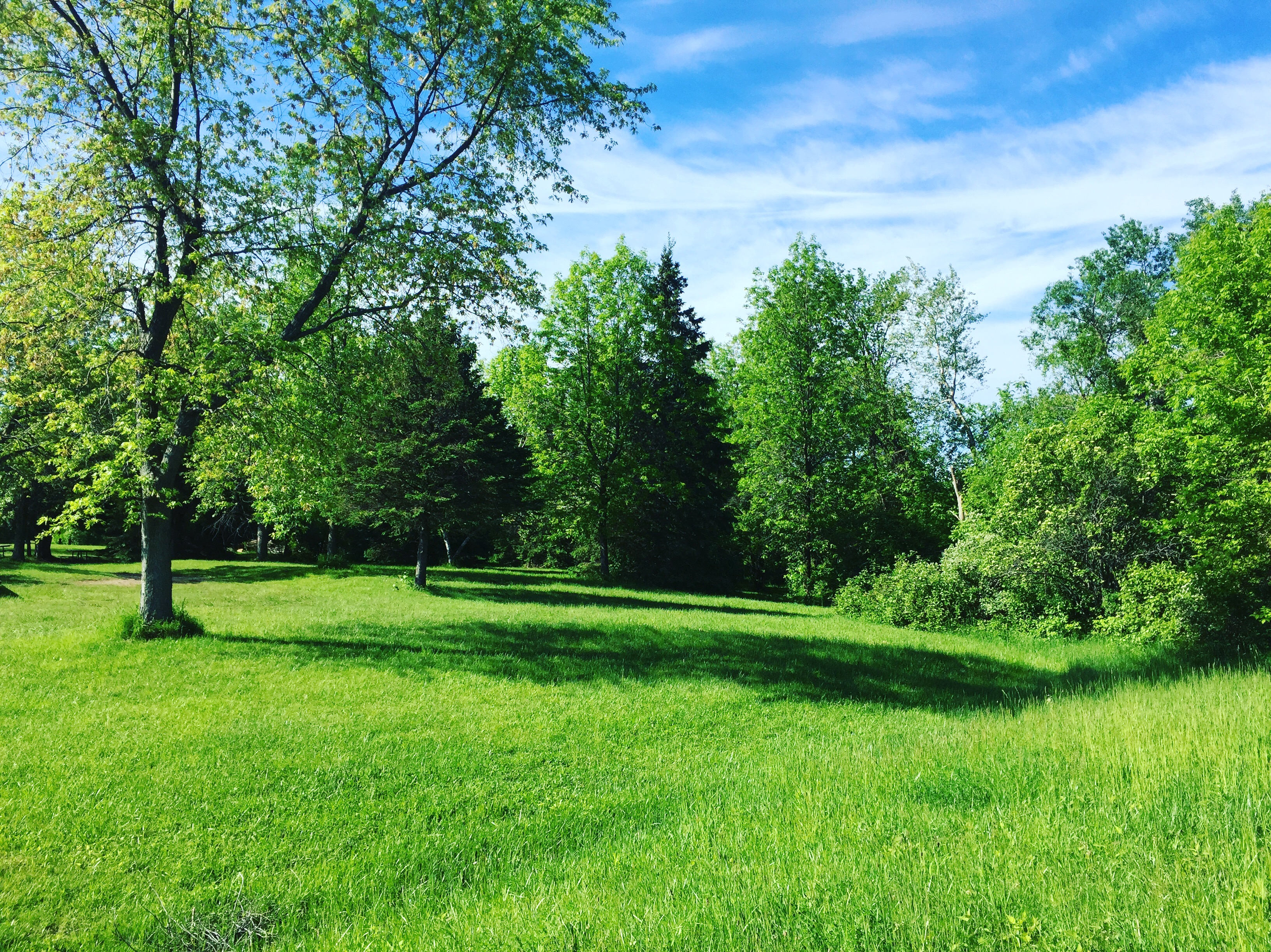 The photo was taken in Summer 2017 by Manu Jose